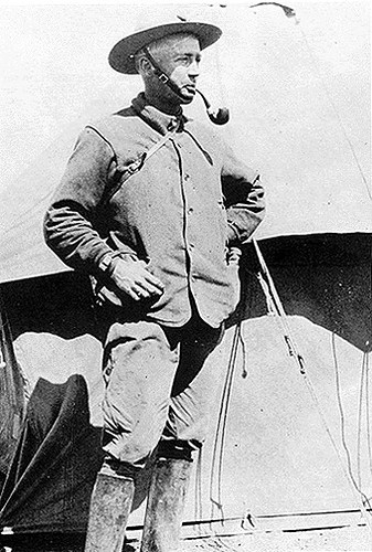 George S. Patton